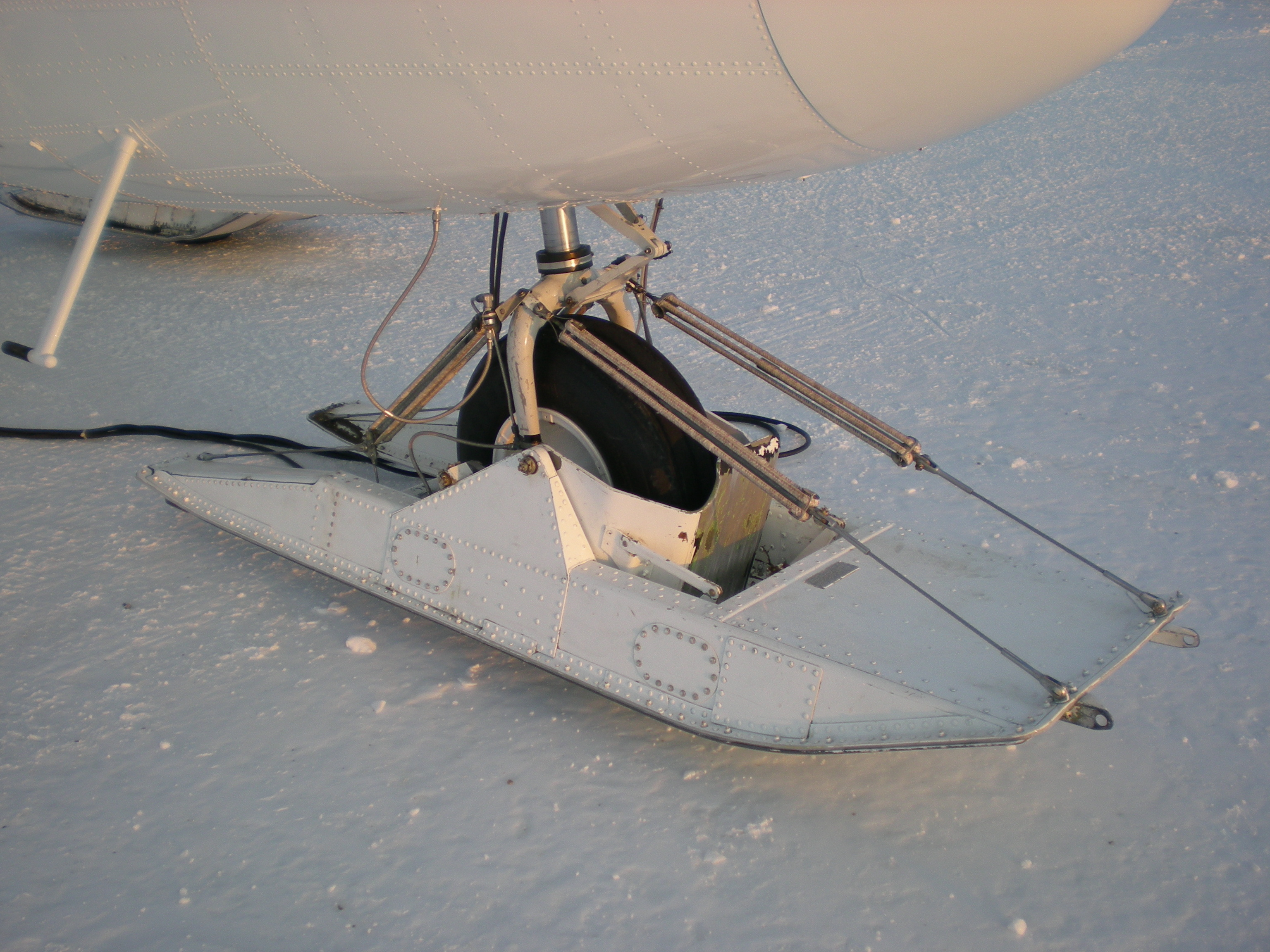 Wheel-skis. Aircraft on wheel/skis.